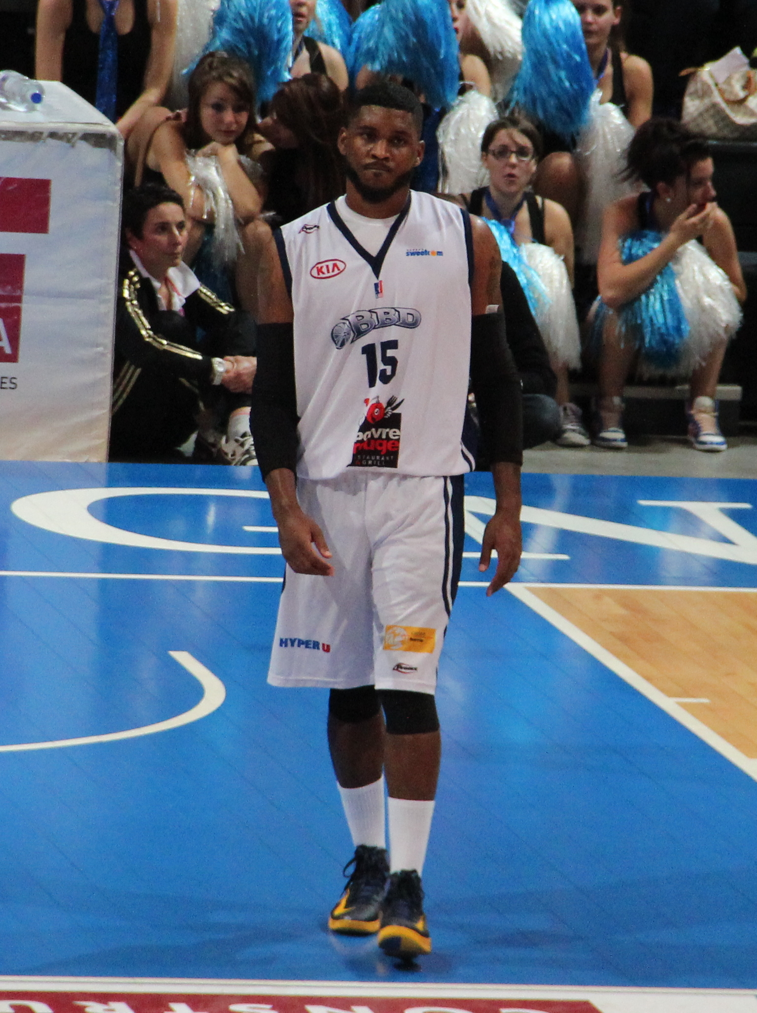 ProA 2012-2013 — 21 October 2012, Le Palio, Boulazac. Match between: Boulazac Basket Dordogne — Poitiers Basket 86 Darryl Monroe (Boulazac, 15)